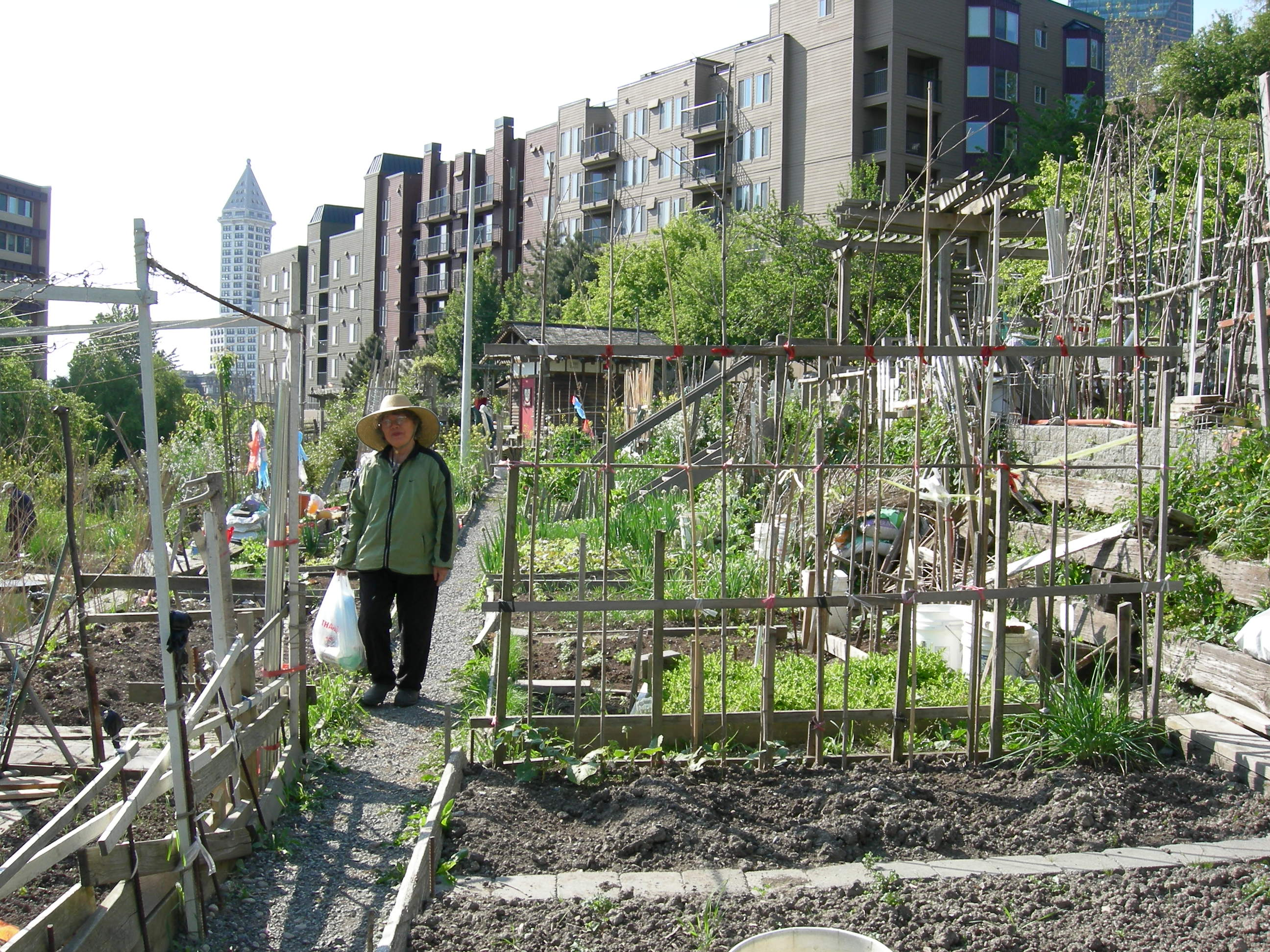 Danny Woo International District Community Gardens, International District, Seattle, Washington. The Smith Tower can be seen background left.